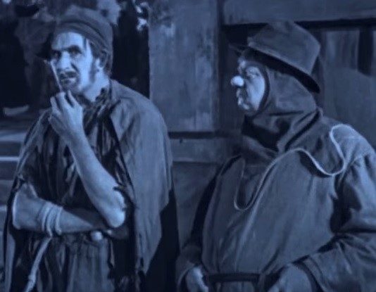 Ernest Torrence (left) and Harry Holman in The Hunchback of Notre Dame (1923) - cropped screenshot